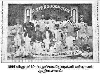 Football squad of R B Ferguson, India's first division champions.